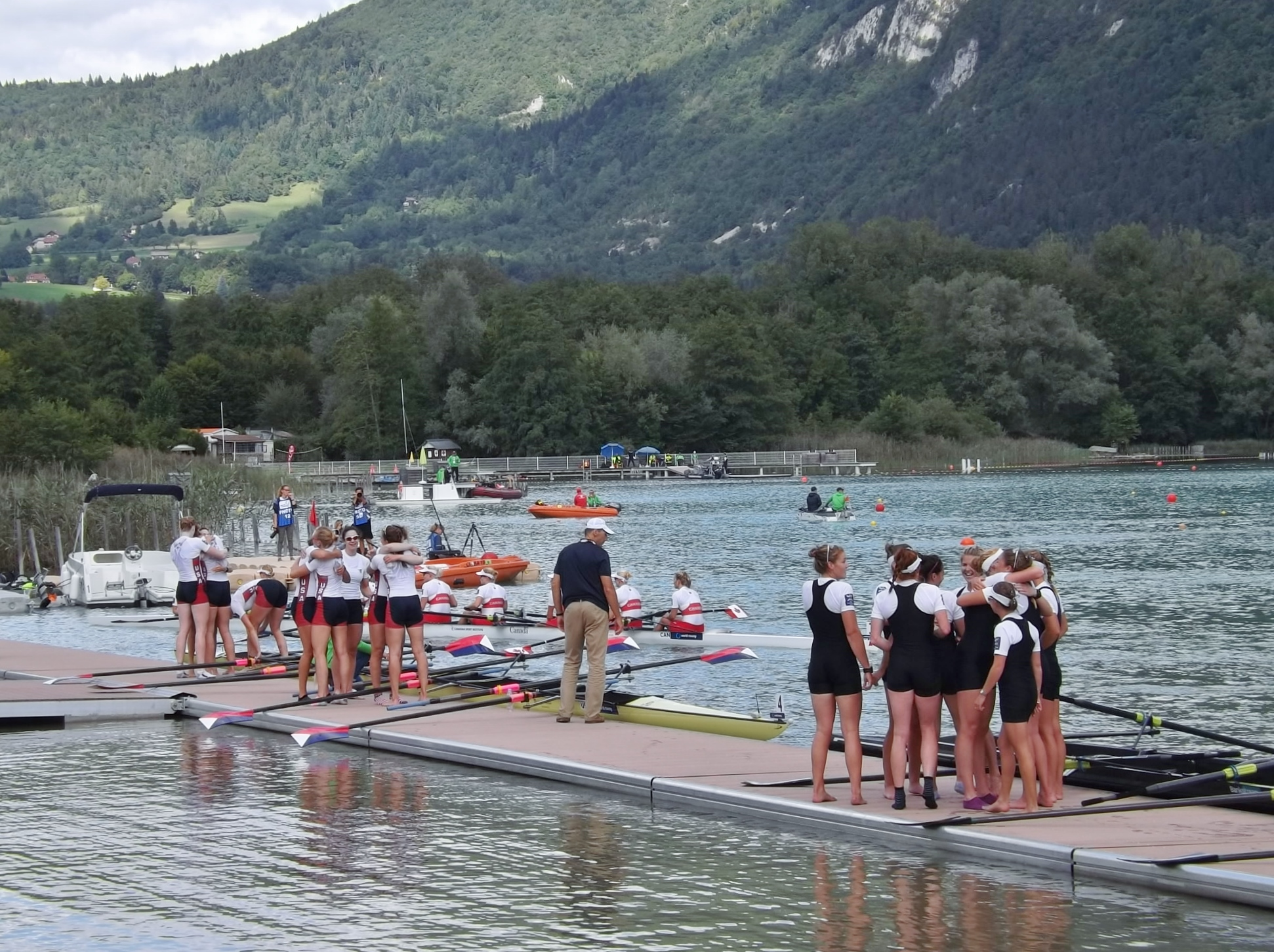 Sight of both women team of the United States of America and New Zealand congratulating each other for their performance, during the 2015 World Rowing Championships taking place on the lac d'Aiguebelette lake, in Savoie, France.